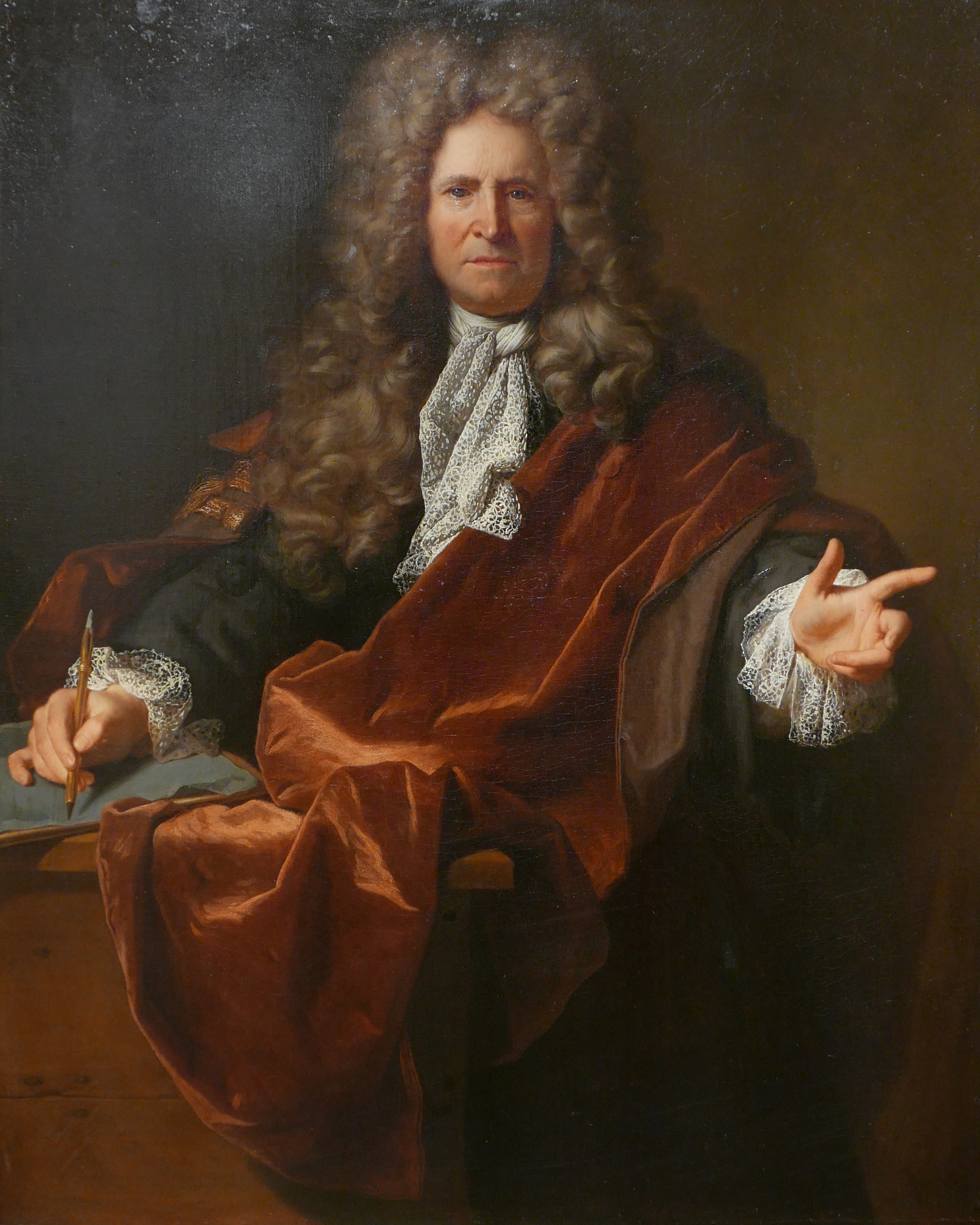 Montpellier (Hérault, Languedoc, Occitanie), Musée Fabre, temporary exhibition, unfortunately interrupted by the covid 19 pandemic then extended until June 28, 2020, "Jean Ranc, a native of Montpellier at the court of Kings". With the portrait of the painter François Verdier, one of the two works imposed for his reception at the Royal Academy of Painting and Sculpture in 1703: the painter and engraver Nicolas van Plattenberg called "de Platte Montagne".